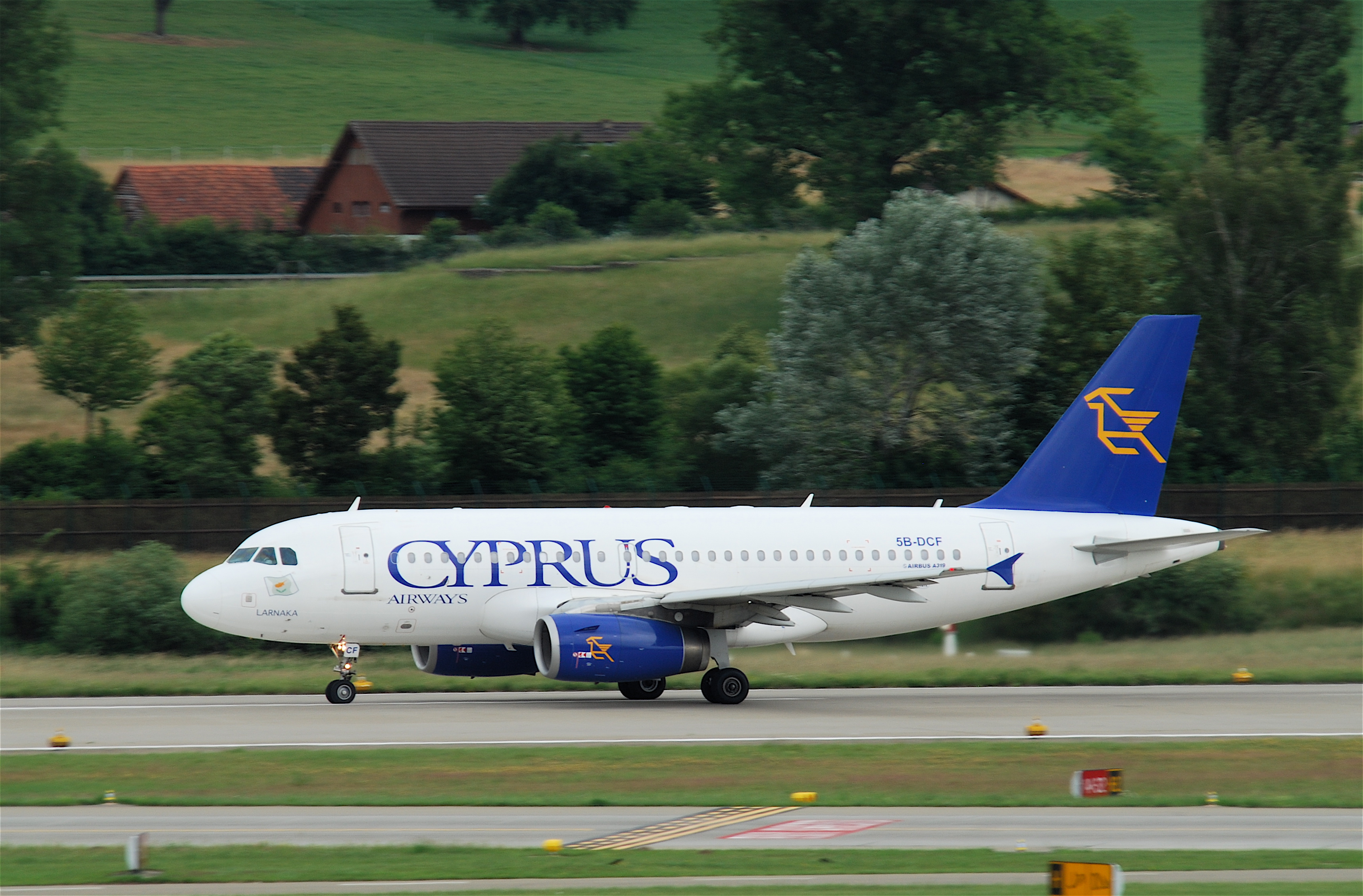 This A319, named 'Larnaka', took its first flight on April 4, 2006...(c/n 2718) 25/04/2006 Spirit Airlines N518NK stored 09/2008 27/11/2008 Cyprus Airways 5B-DCF